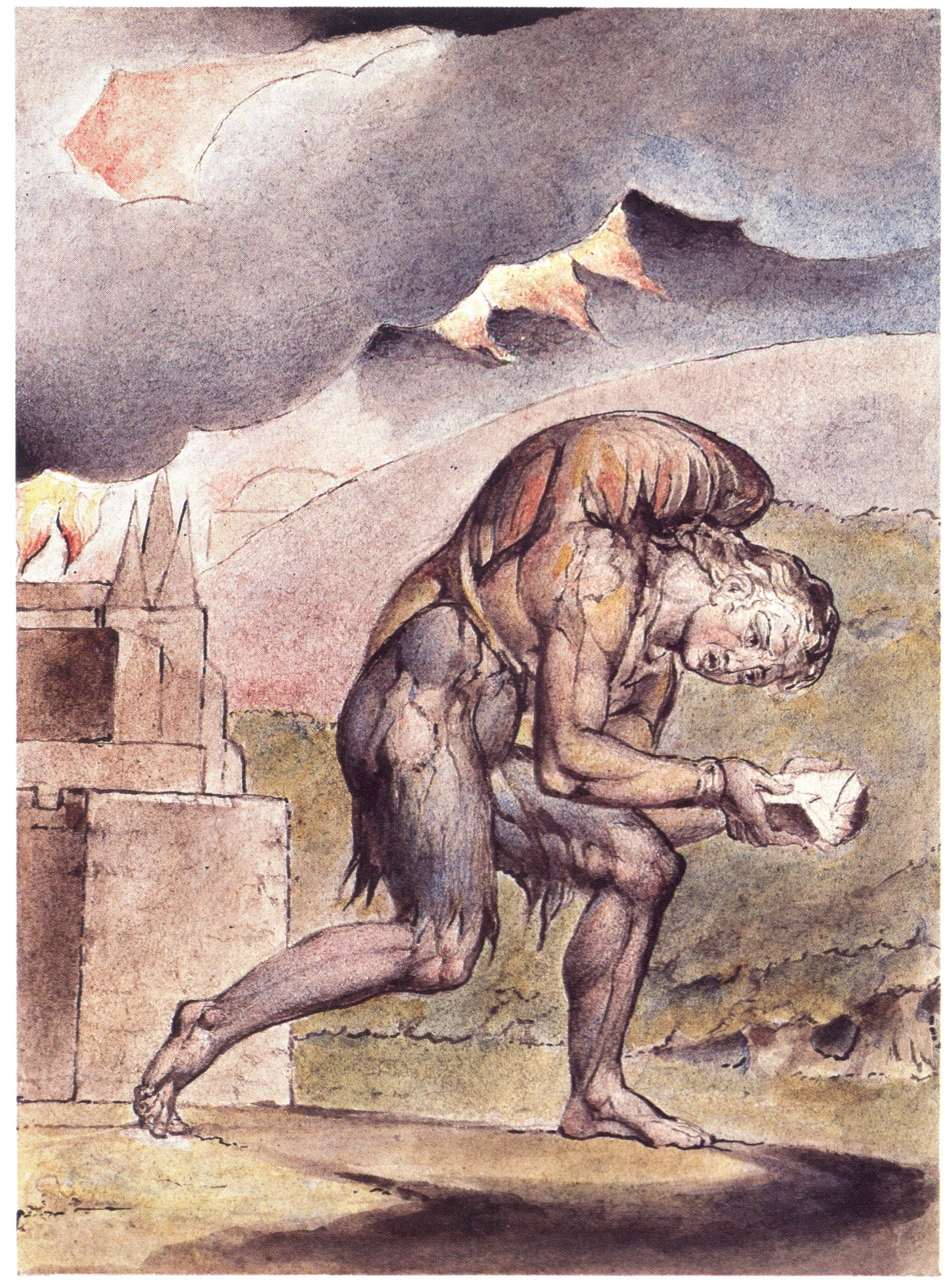 William Blake - John Bunyan - Christian Reading in His Book - Frick Collection New York